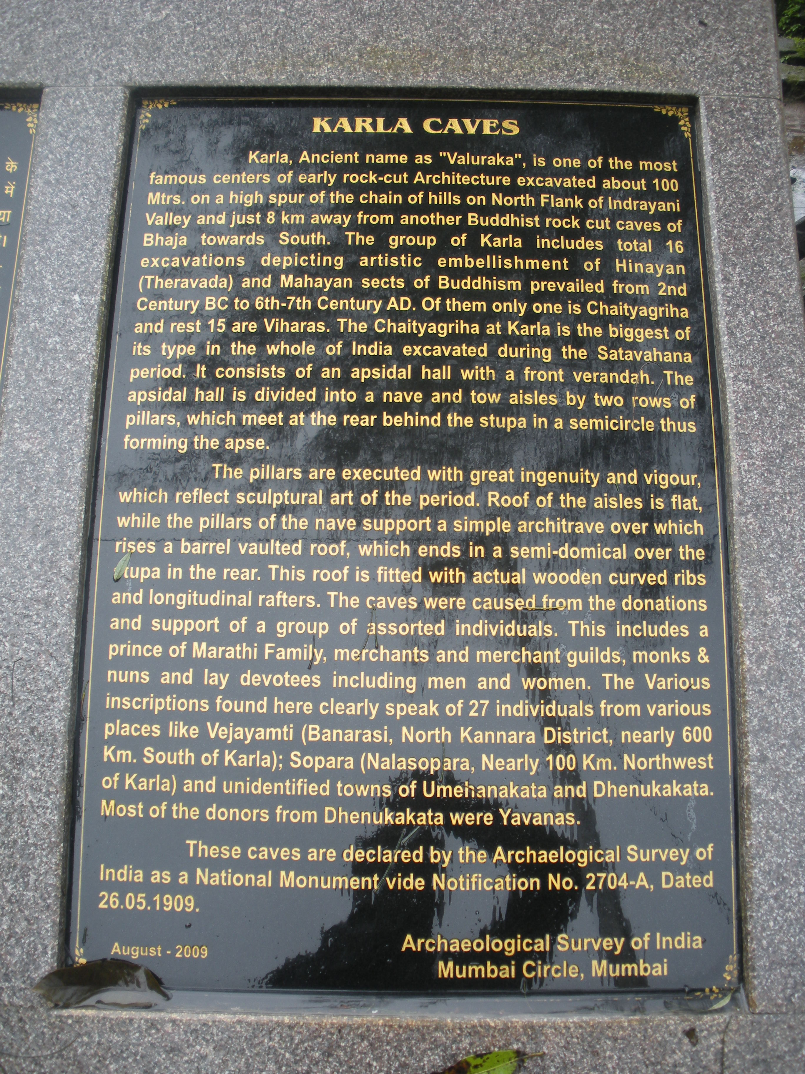 Tablet installed by Archeological Survey of India, in front of Karla Caves, Maharashtra